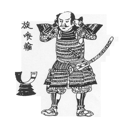 A Japanese Edo period wood block print of a samurai wearing a tachi and putting on a nodowa.